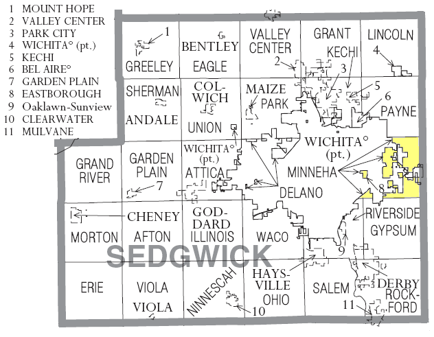 Map of Sedgwick County, Kansas highlighting Minneha Township